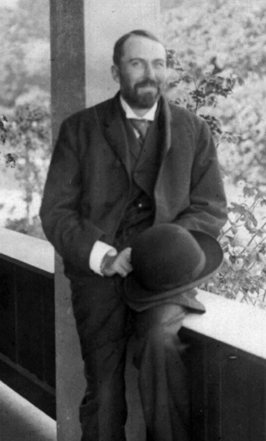 American zoologist Theodore Sherman Palmer (1868-1955), seated on the railing of a porch, Berkeley, California.